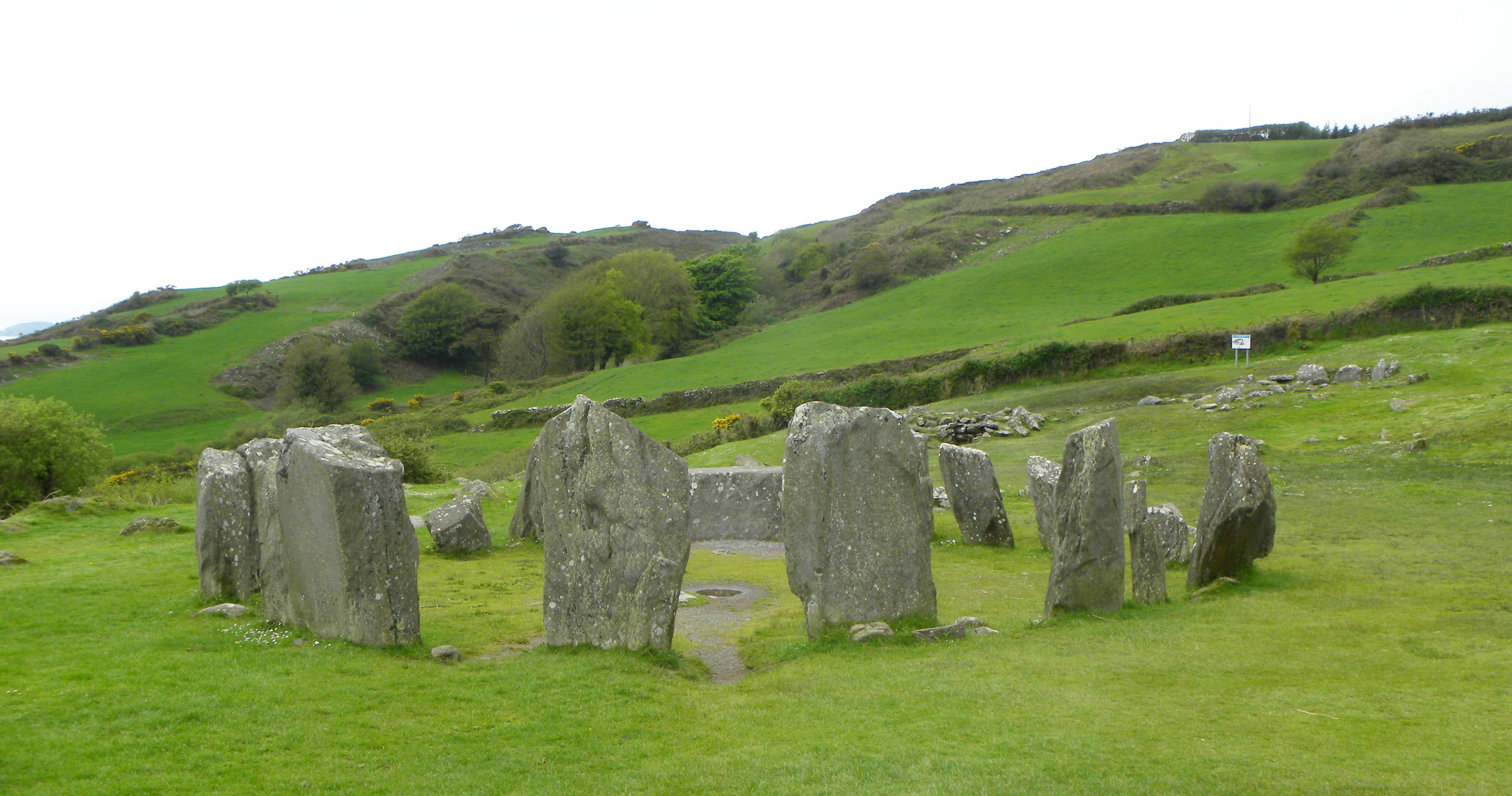 Droumbeag stone circle